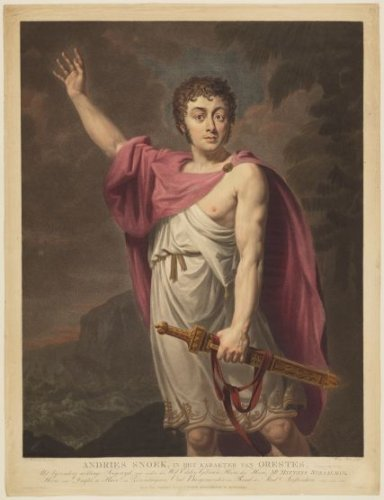 Potrait of the Dutch actor Andries Snoek (1766-1829) in his role as Orestes, by Jan Kamphuijsen (1760-1841).